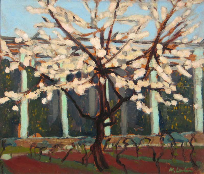 Maggie Laubser, Pink Blossoming Tree, undated (1920–1921), oil on cardboard, 340 x 400 mm, DM Cat. No. 240